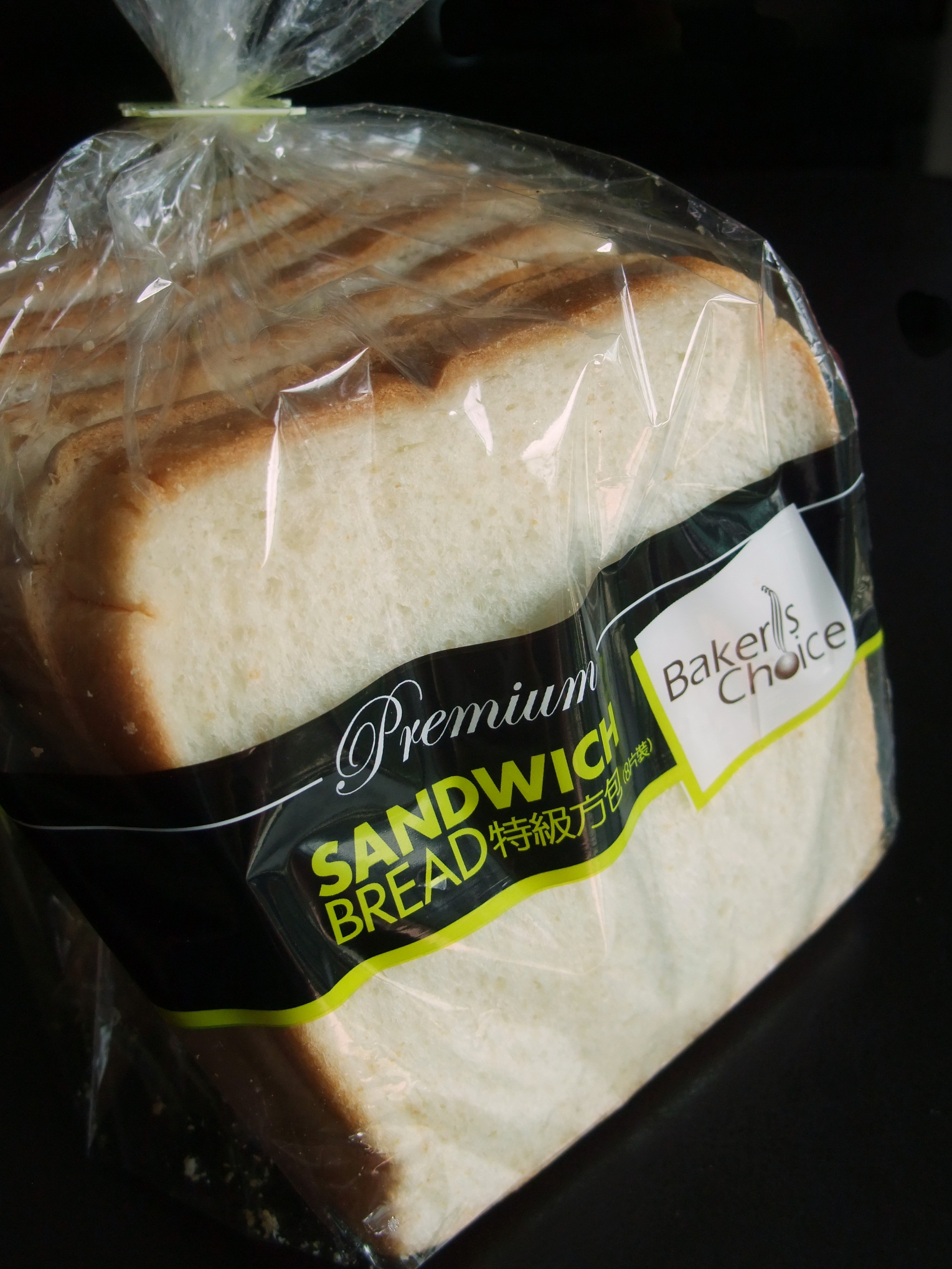 Baker's Choice premium sandwich bread. Quantity: 8 pieces Distributor: A. S. Watson Group (Hong Kong) Ltd.